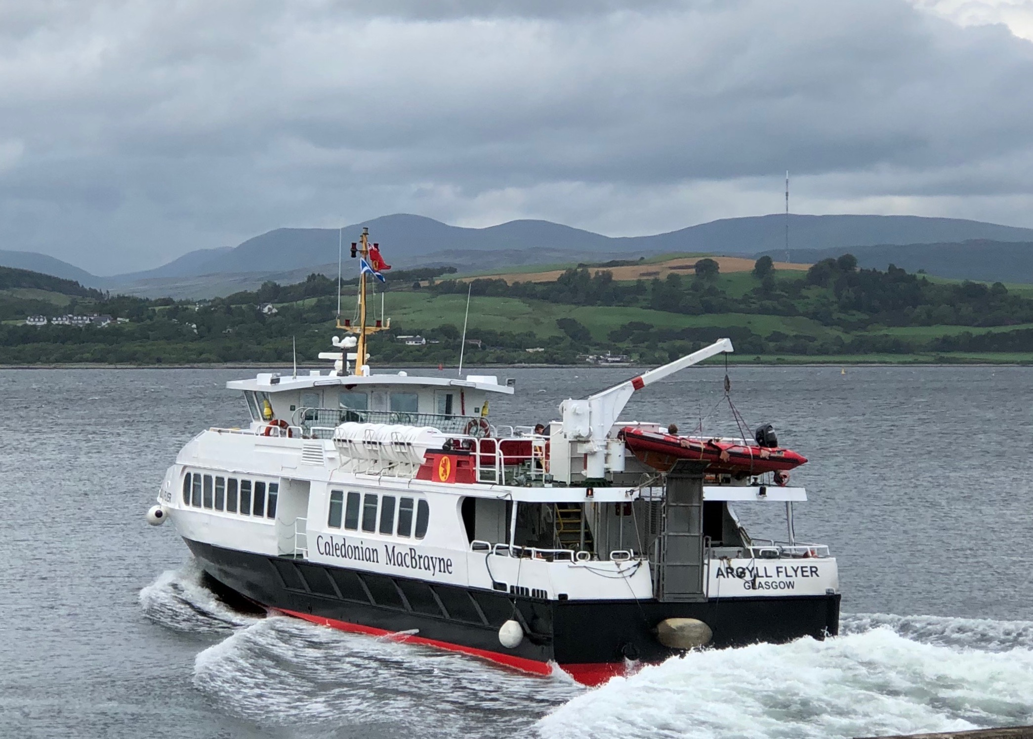 MV Argyll Flyer leaving Gourock pierhead for Dunoon, now in Caledonian MacBrayne livery. seen from astern.